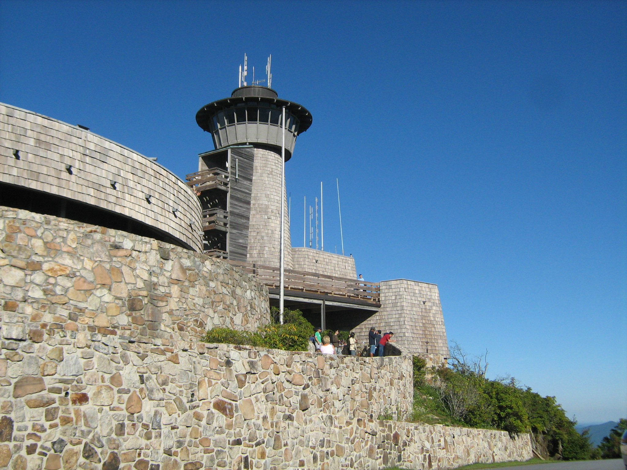 Observation tower on Brasstown Bald, the highest peak in Georgia